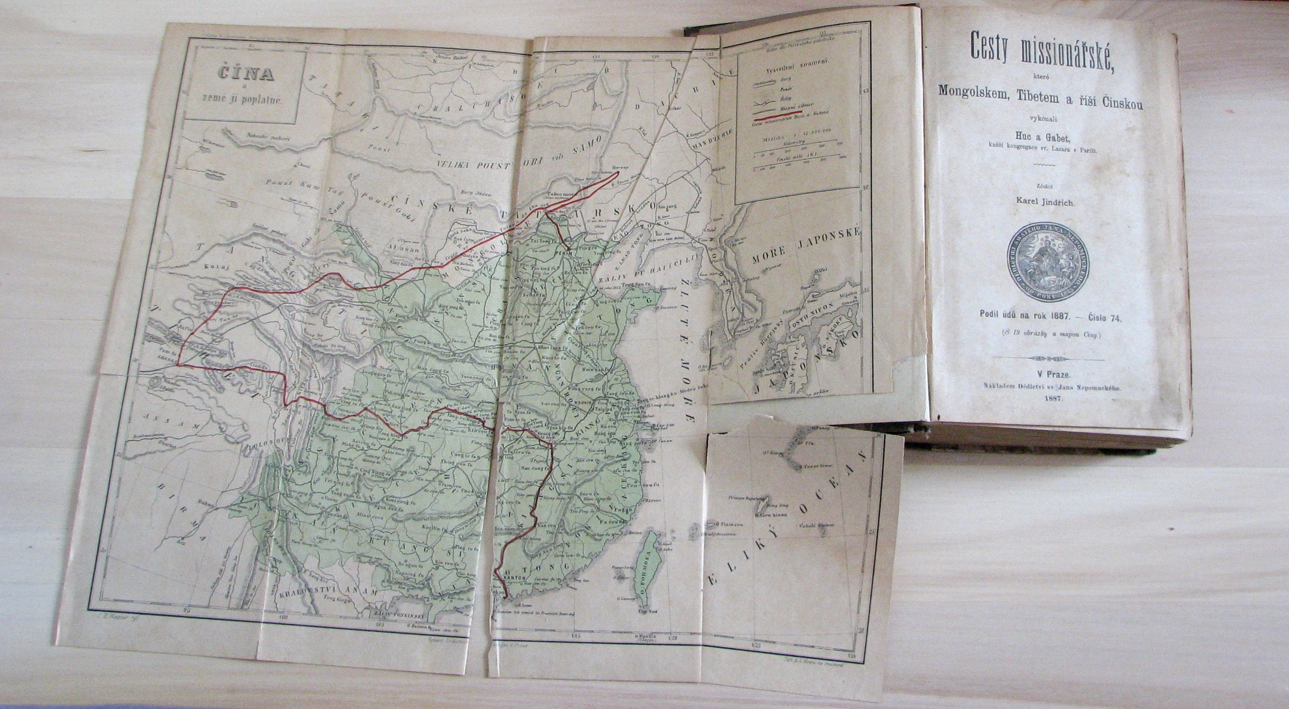 The front page and the map from the first Czech edition of Cesty missionářské, které Mongolskem, Tibetem a říší Čínskou vykonali Huc a Gabet, kněží kongregace sv. Lazara v Paříži (orig. Souvenirs d'un voyage dans la Tartarie, le Thibet, et la Chine pendant les années 1844, 1845 et 1846).